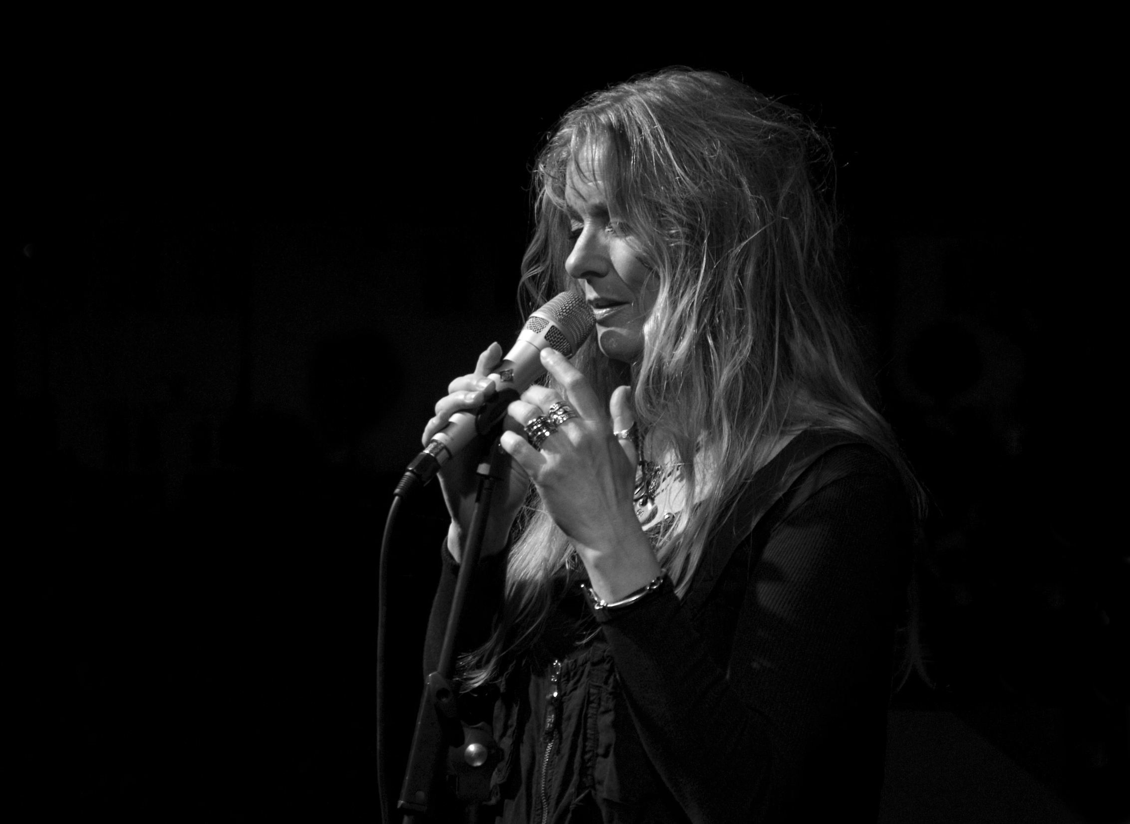 Hilde Hefte. Concert at Agder Theatre 2008